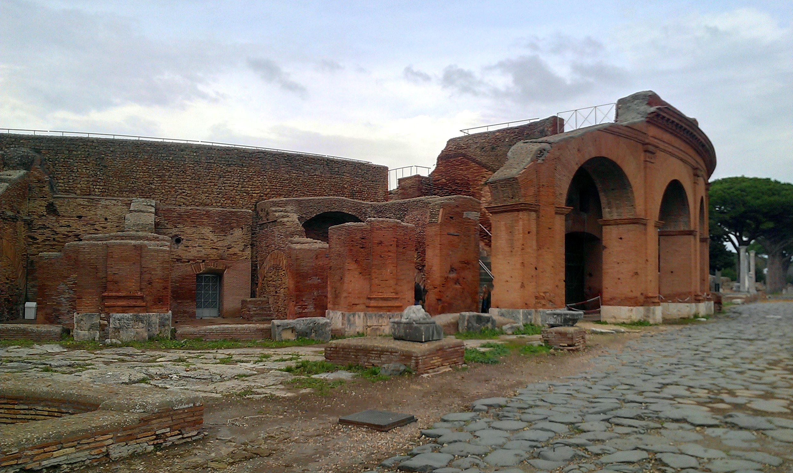 Exterior of the theatre at Ostia Antica.